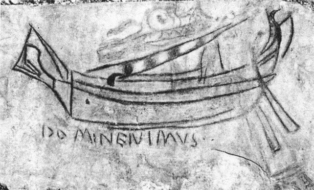 chapel of st. Vartan and armeanian martyrum, photo of a ship and inscription -"DOMINE IVIMVS" (Lord, we have gone). The ship drawing was discovered in November 1971 on the side of one of the Hadrianic walls.